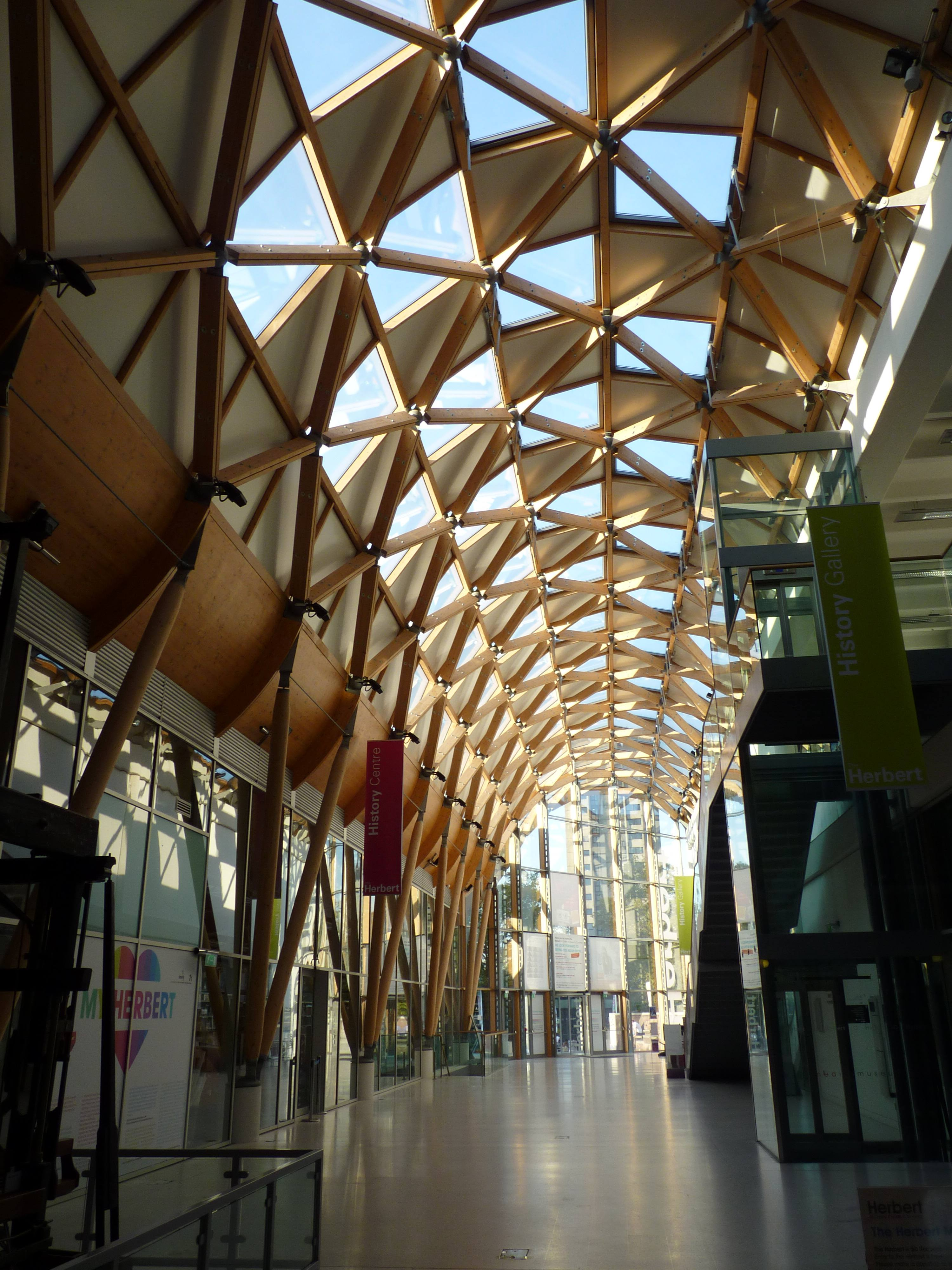 Uncategorised photo taken at Herbert Backstage Pass.